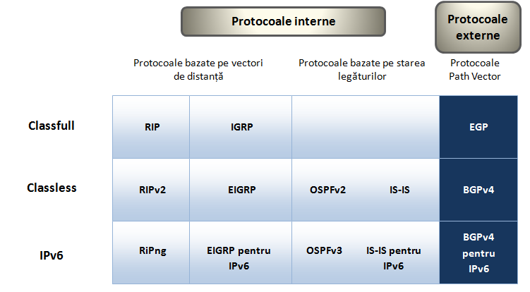 Routing protocols